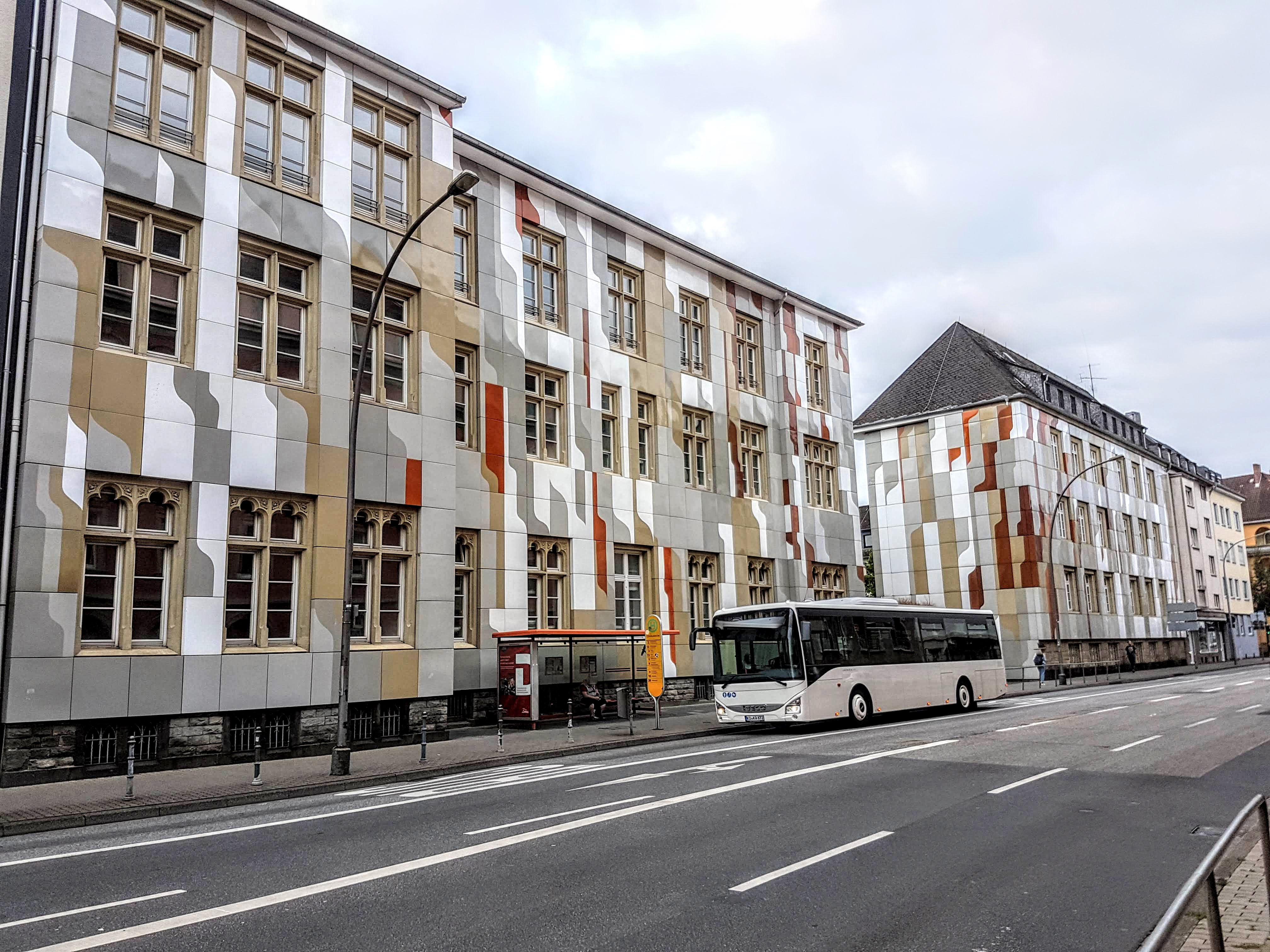 Episcopal Cusanus-Gymnasium